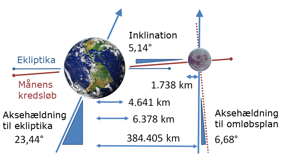 NASA photos of Earth and Moon labeled with some data on orbits and tilts